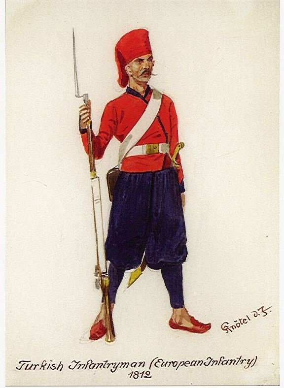 Ottoman infantry in european unifrom